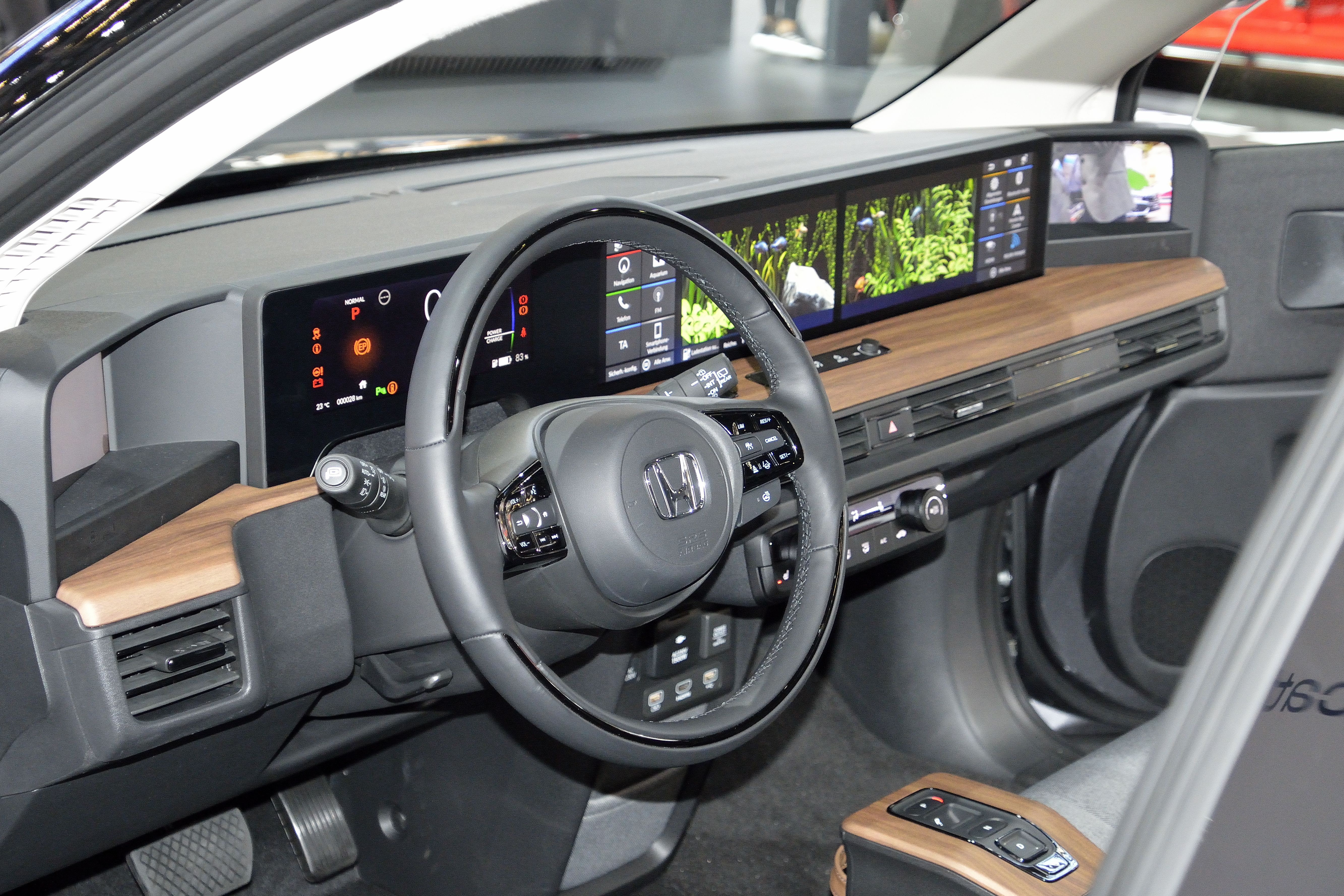 Dashboard of the electric Honda e